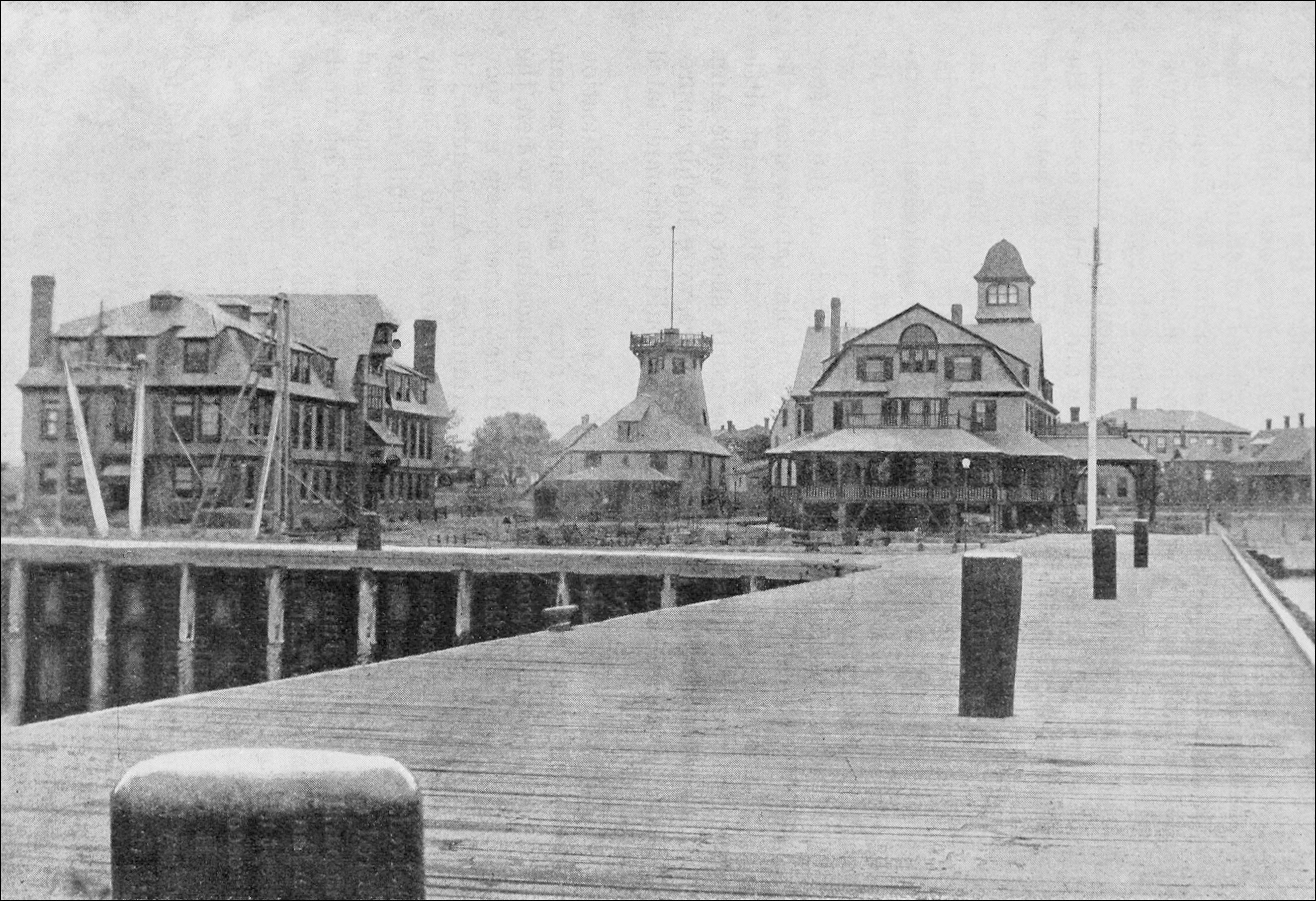 US Fish Commission buildings at Woods Hole Mass